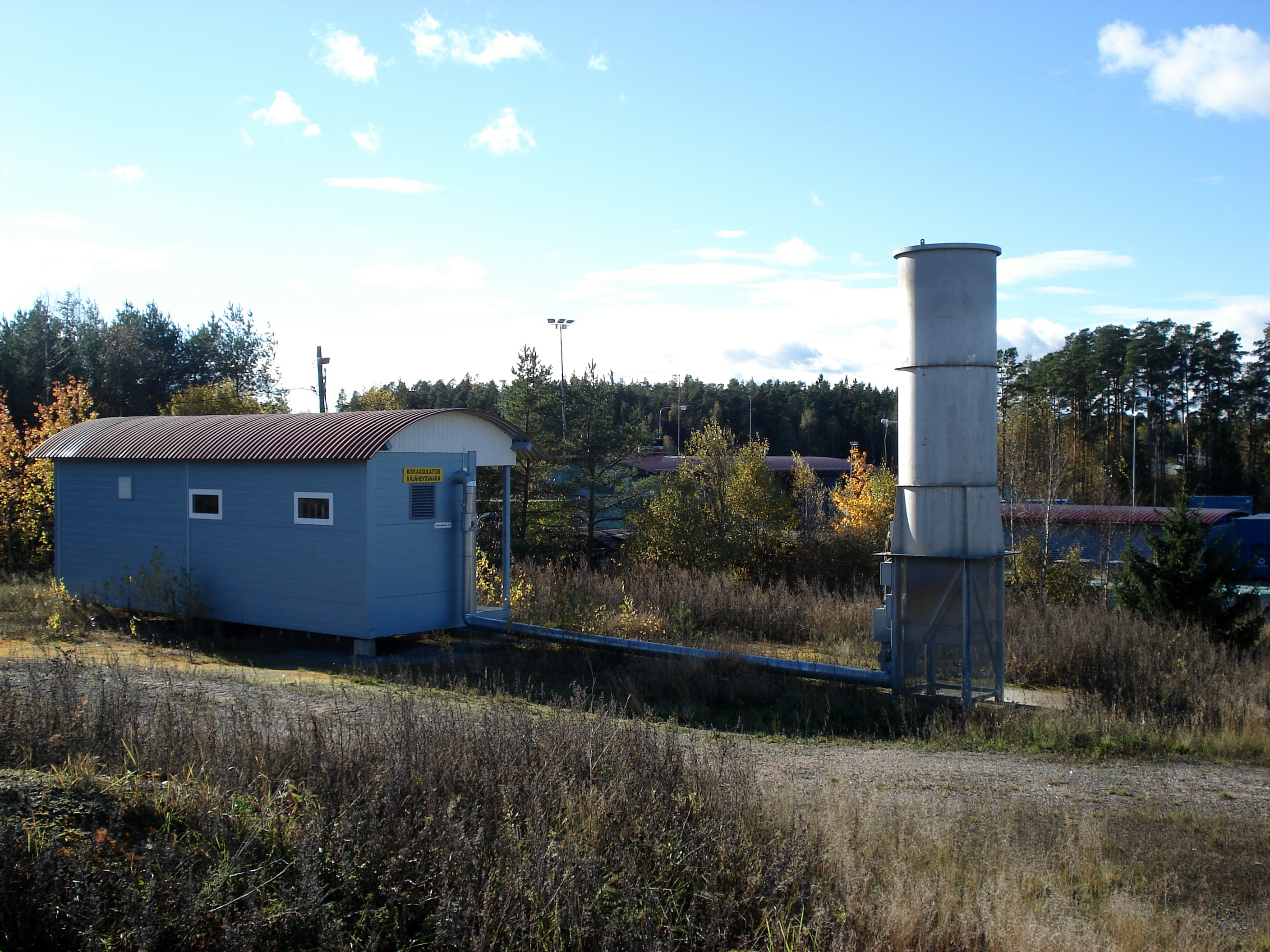 Biogasworks at Raisio, Finland